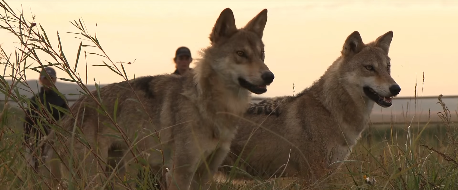 Screenshot of behind the scenes promotional video of Wolf Totem